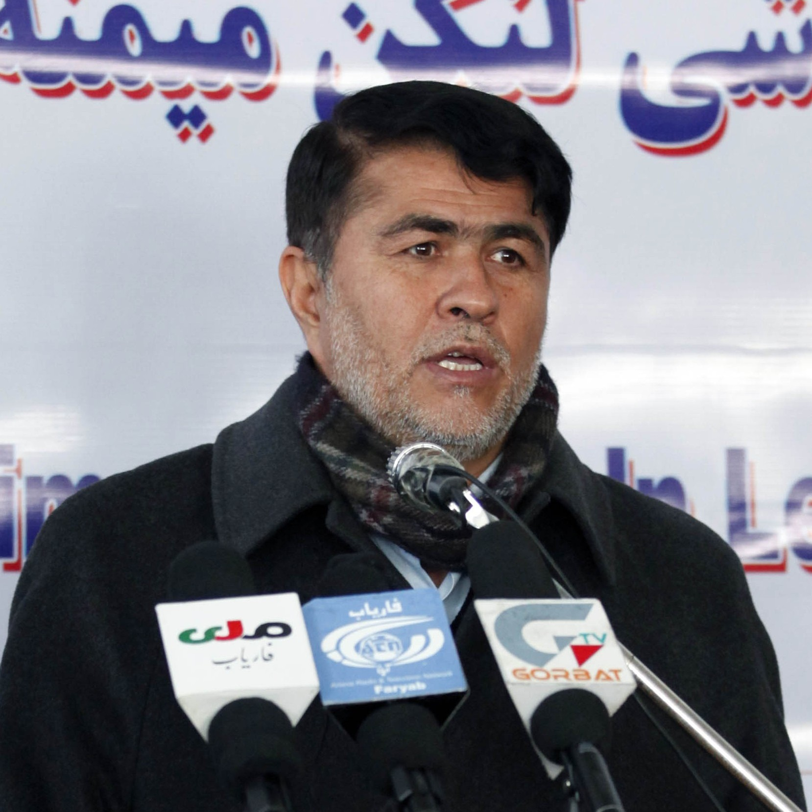 Faryab Governor Abdul Haq Shafaq gives remarks during the inauguration of the the LLC in Maimana, Afghanistan.